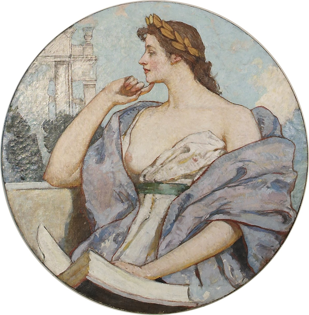 Philosophy, mural by Robert Lewis Reid. Second Floor, North Corridor. Library of Congress Thomas Jefferson Building, Washington, D.C. Caption underneath reads: HOW CHARMING IS DIVINE PHILOSOPHY.